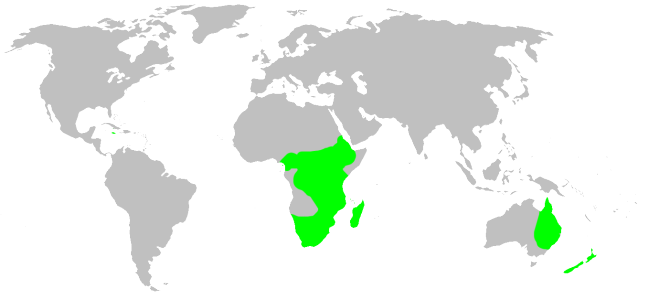 Cyatholipidae habitat distribution, drawn after Platnick: World Spider Catalog 7.0. This is not a precise rendering of the distribution! If you have better information, please replace this map, or send me the info, and i will redraw it.